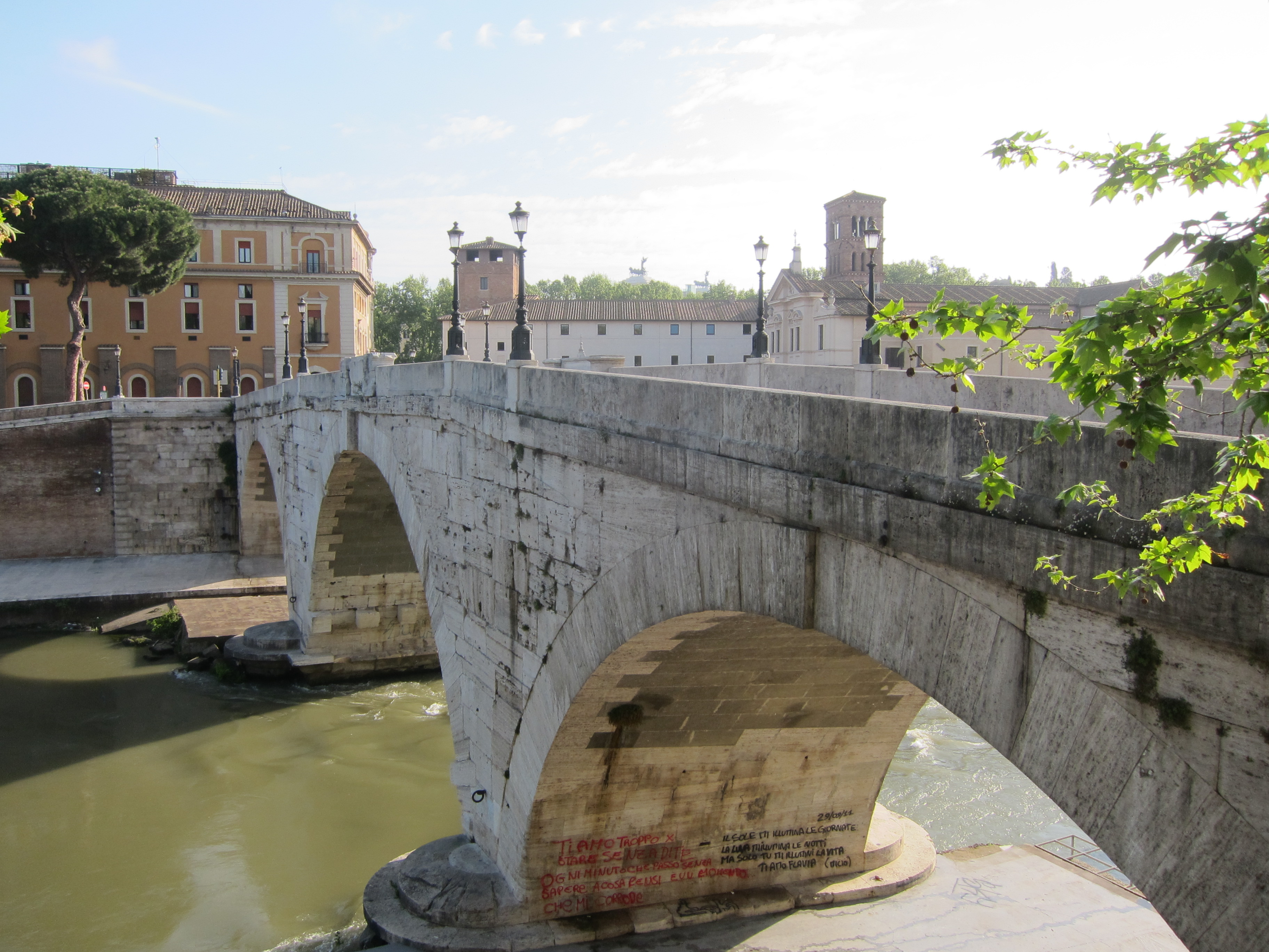 Bridge across Tiber in Rome